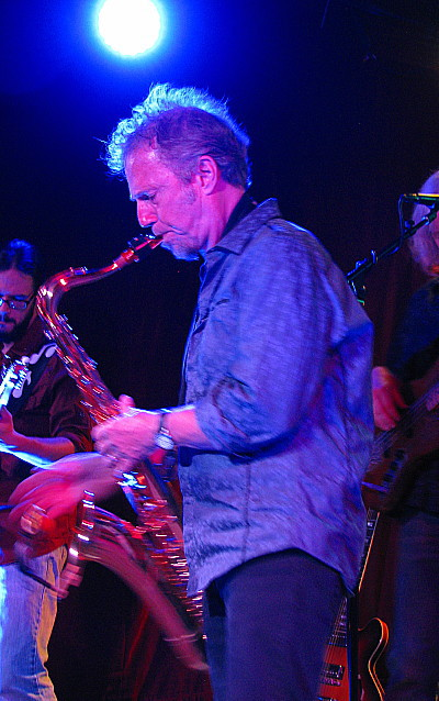 Randall Bramblett on sax at The Saint in Asbury Park, NJ in September 2013. Photo by LHCollins.